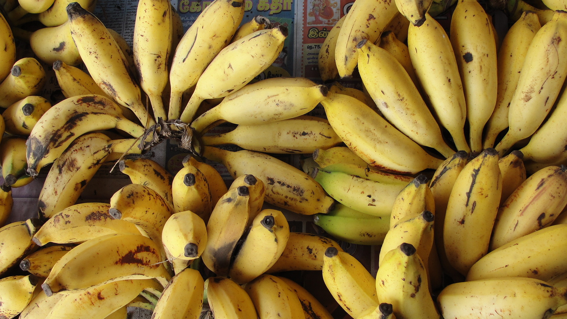 A Banana cluster